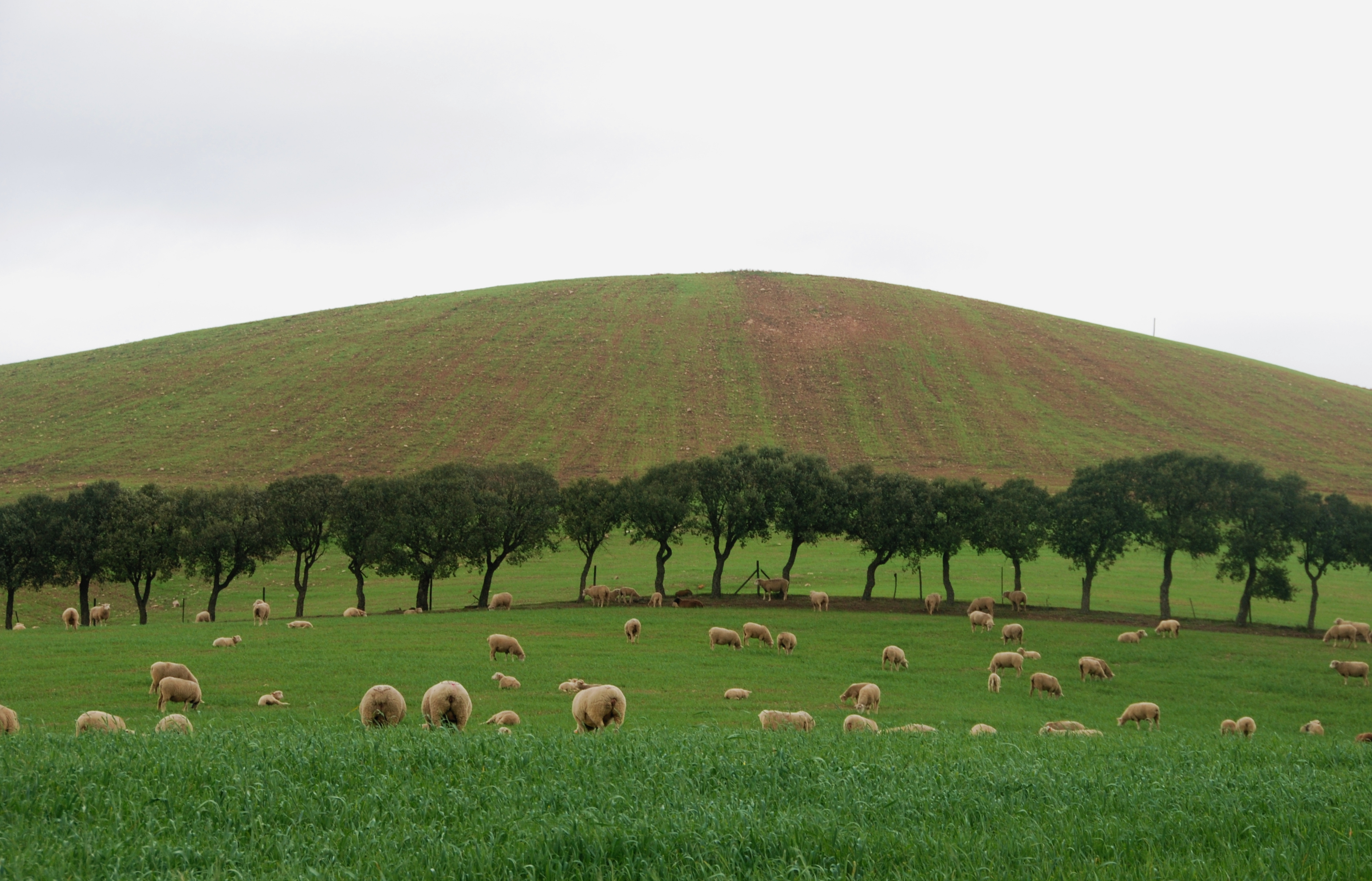 A country view with lambs. Porto Covo, Portugal